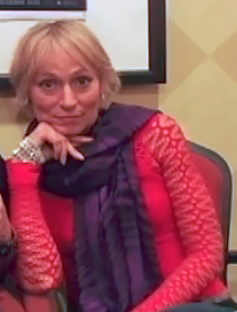 American actress Sandahl Bergman posing for a photograph during a video interview with Count Gore De Vol's Mark J. Gross.